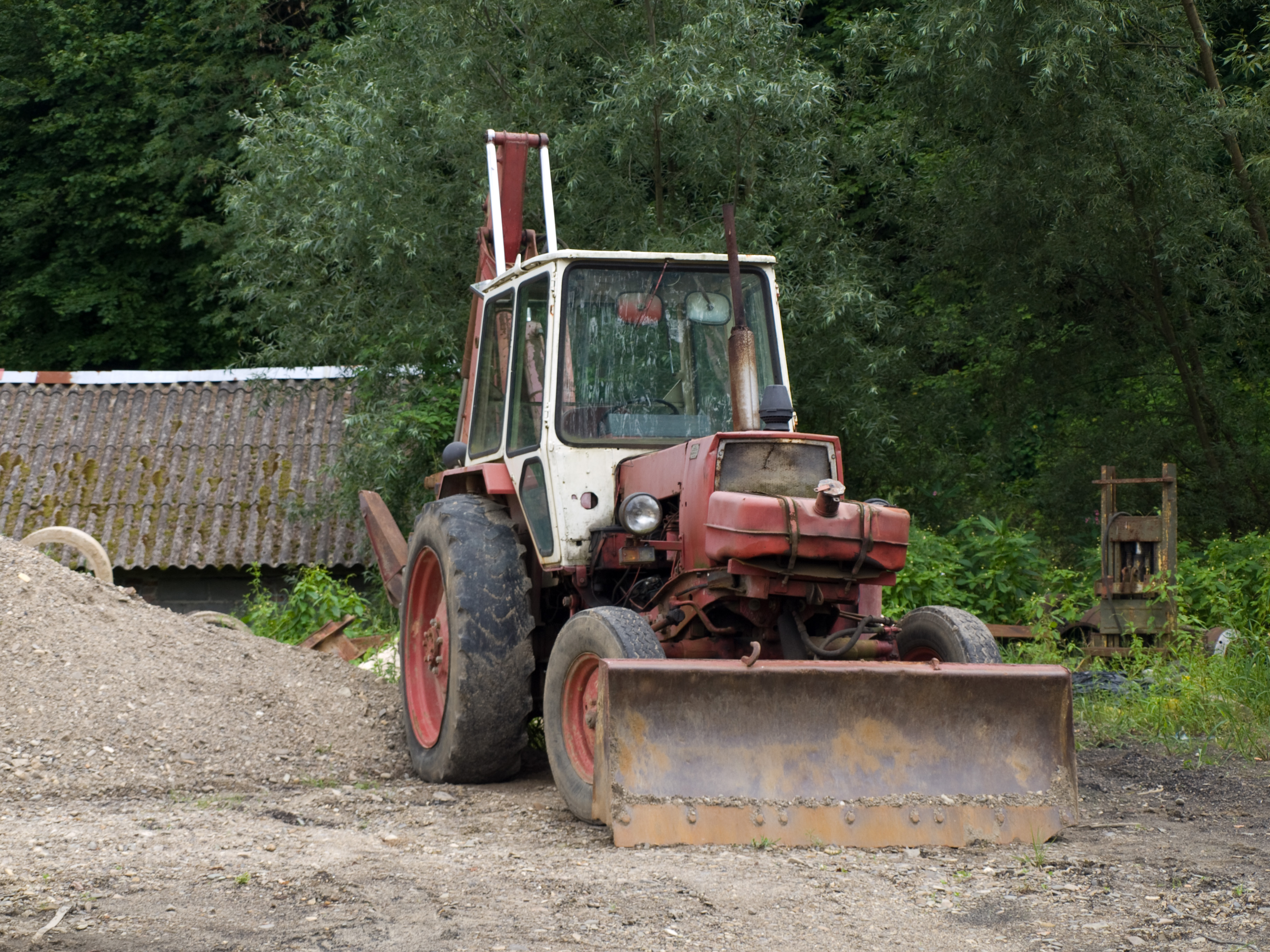 EO 2621 loader based on YuMZ-6, Babice, Subcarpathian Voivodeship